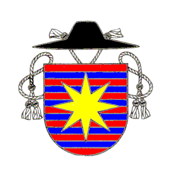 Coat of Arms of Deanery Šternebrk, Archdiocese Olomouc